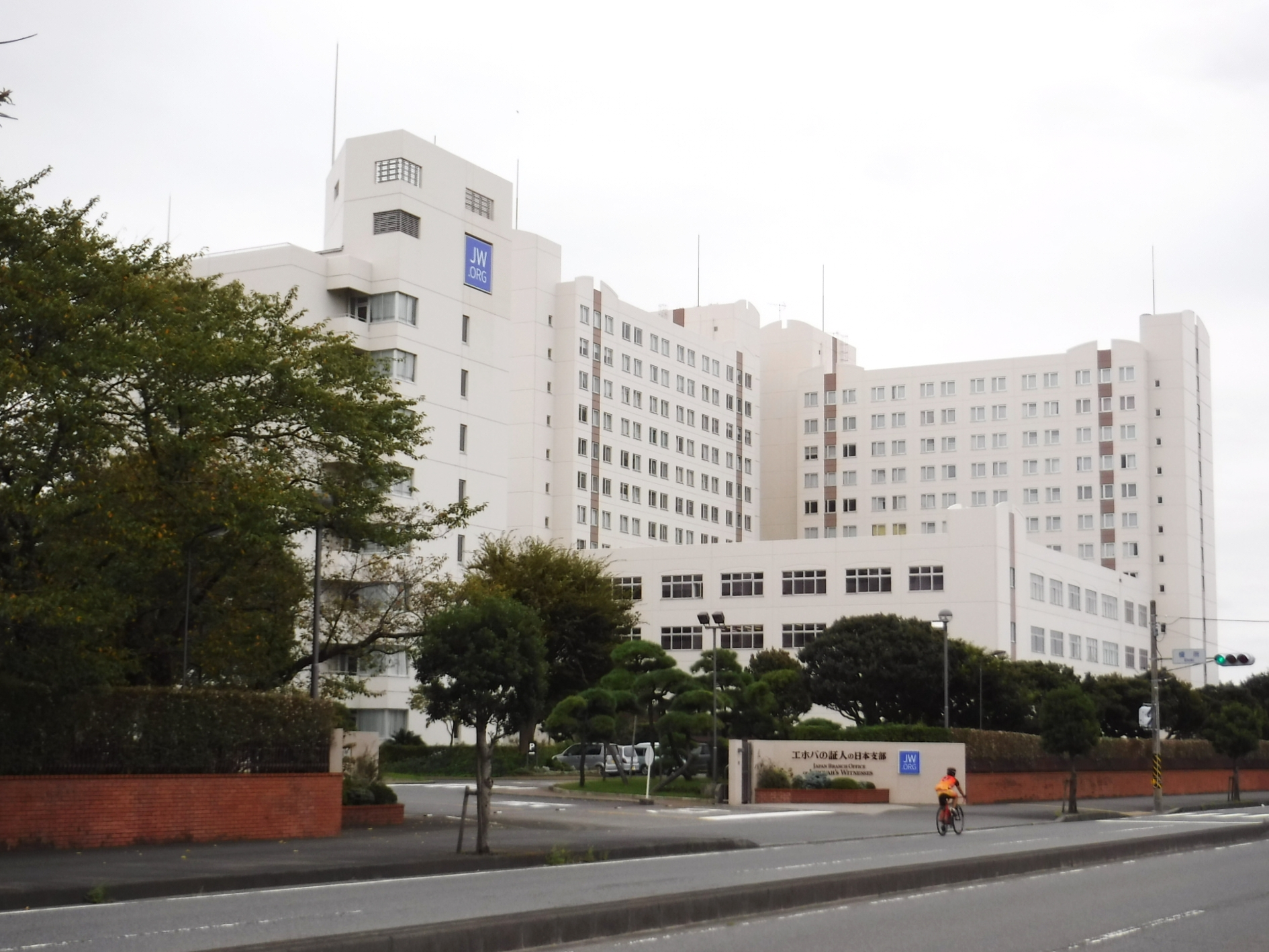 Japan Branch Office of Jehovah's Witnesses located in Nakashinden, Ebina, Kanagawa, Japan.